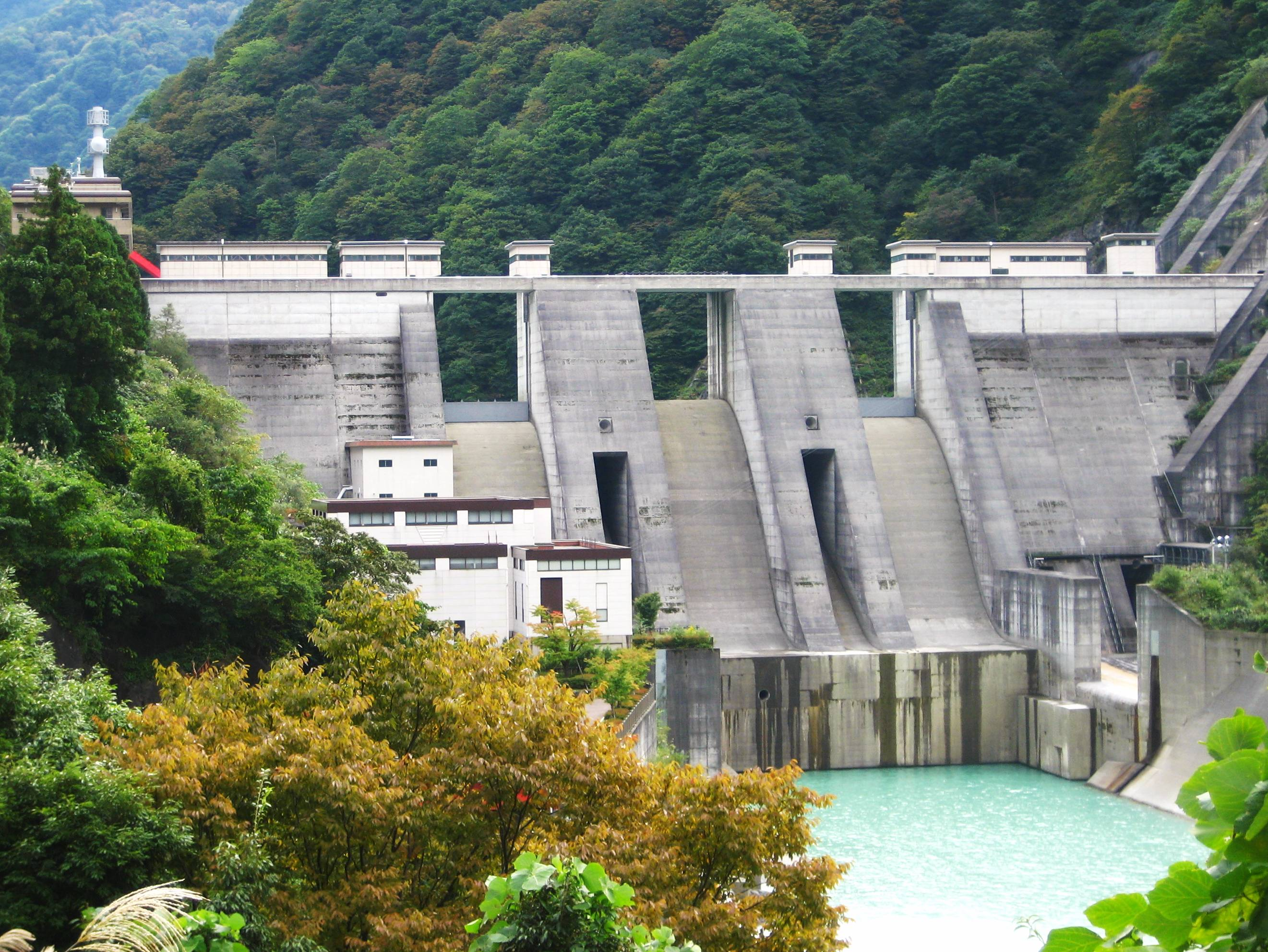 Unazuki Dam (宇奈月ダム) in Kurobe city, Toyama prefecture, Japan.